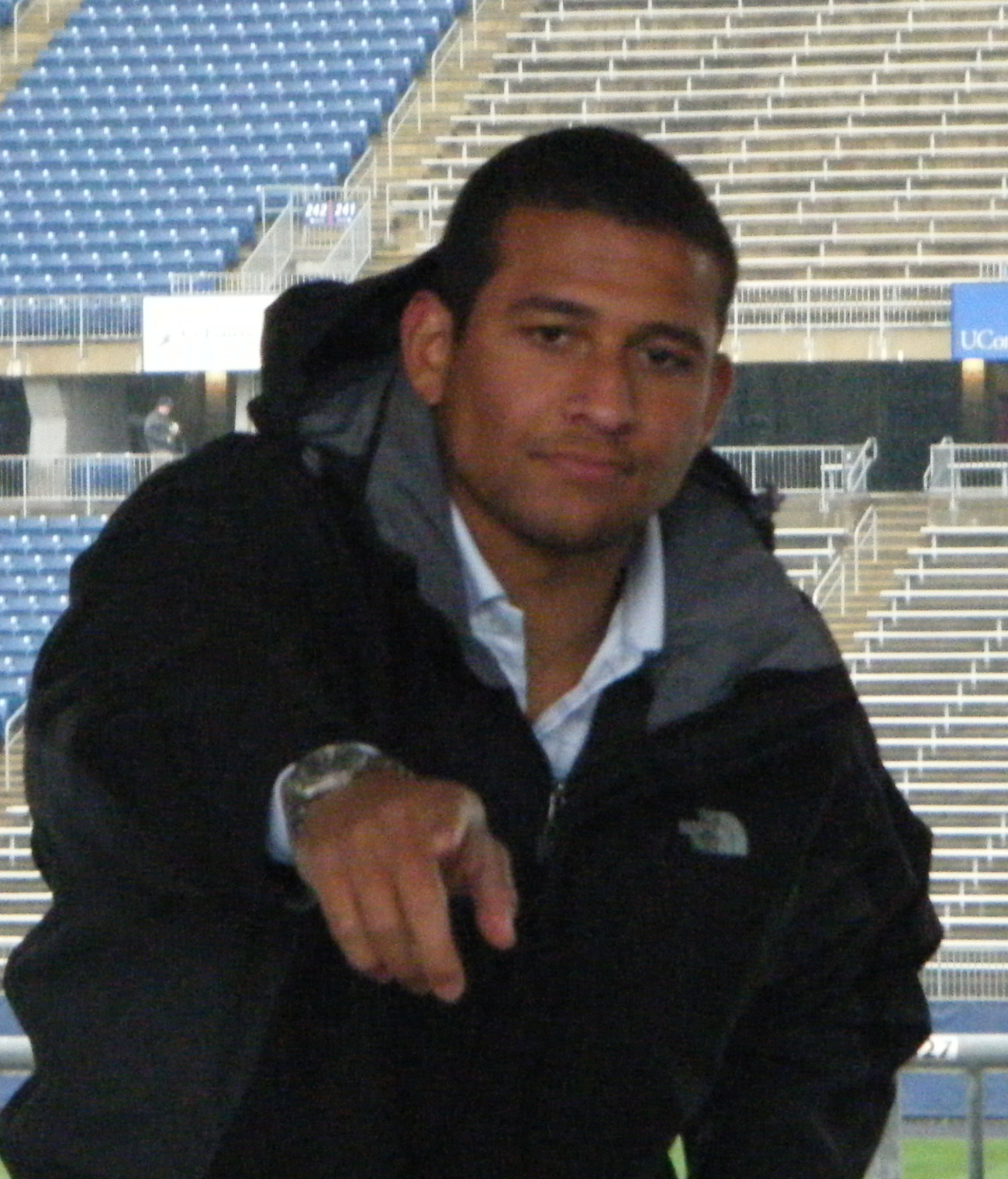 Donald Brown signing autographs at the 2010 UConn Spring Game at Rentschler Field.